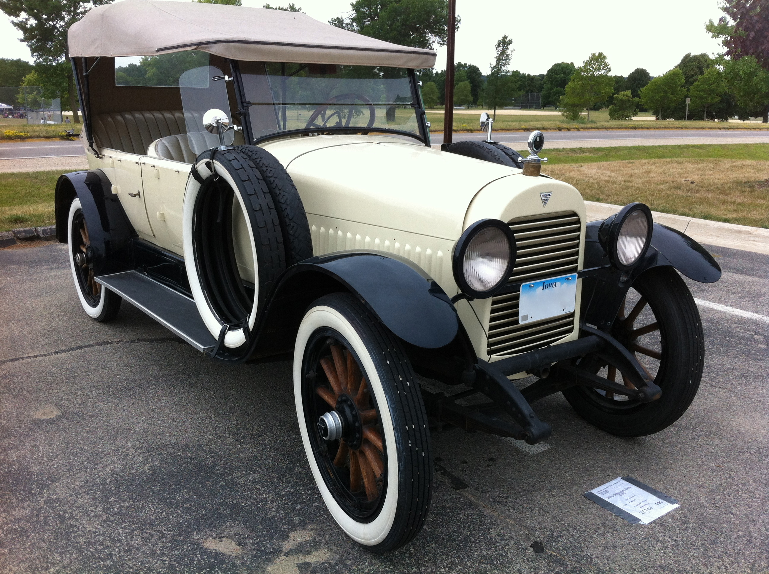 1921 Hudson Super Six Phaeton. Picture taken at the 2012 AACA "Central Meet" held in Cedar Rapids, Iowa, USA.